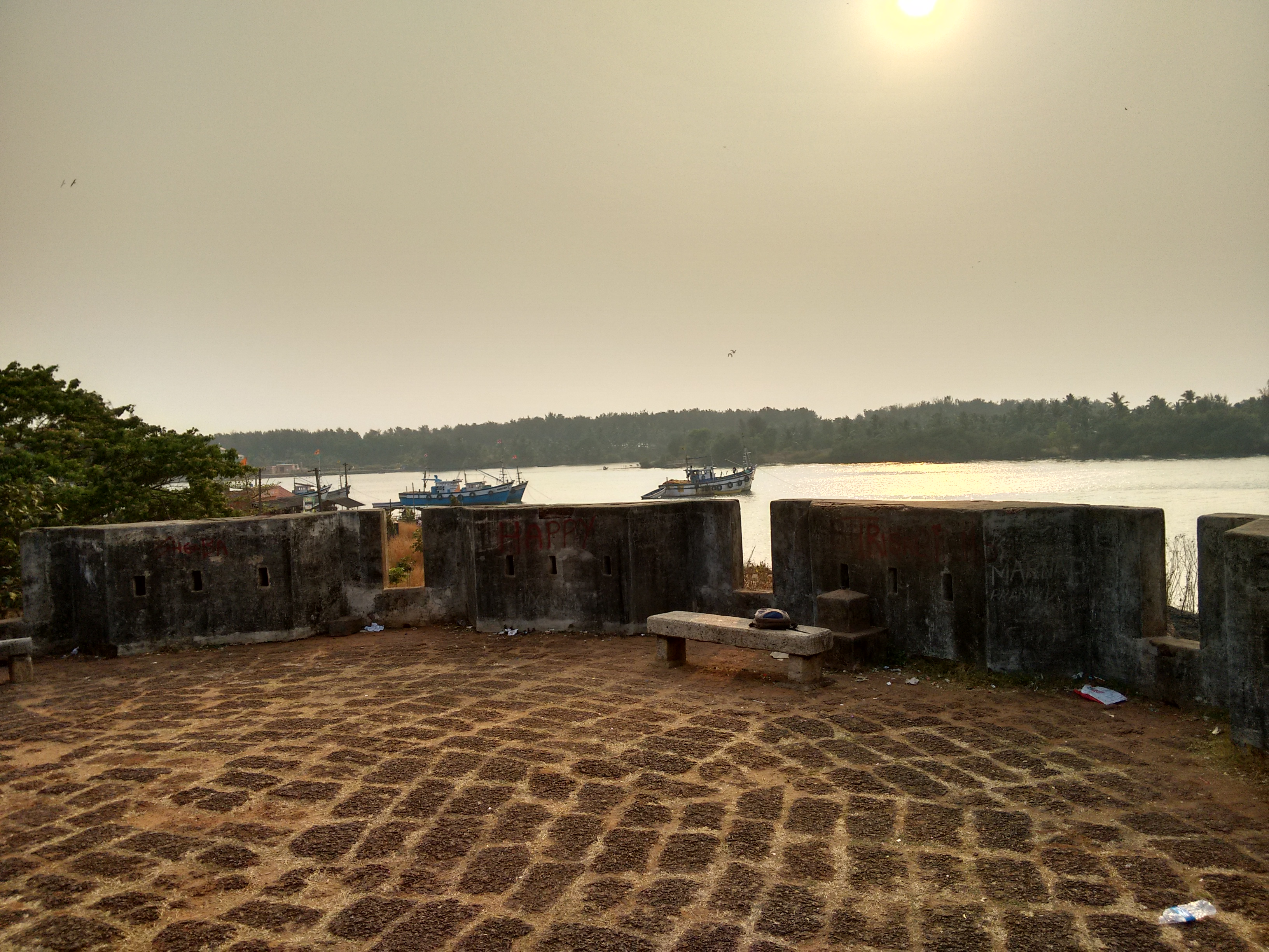 View from a small but very old building, preserved in Mangalore